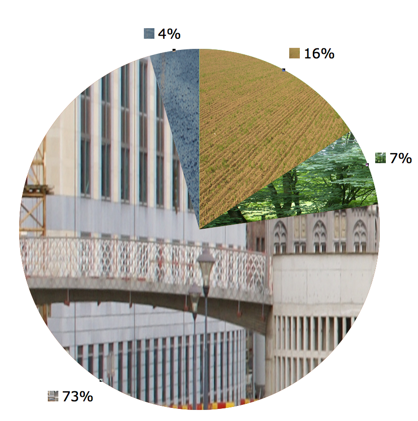 Liège (Belgium): Use of land: woodland, agriculture, construction, other